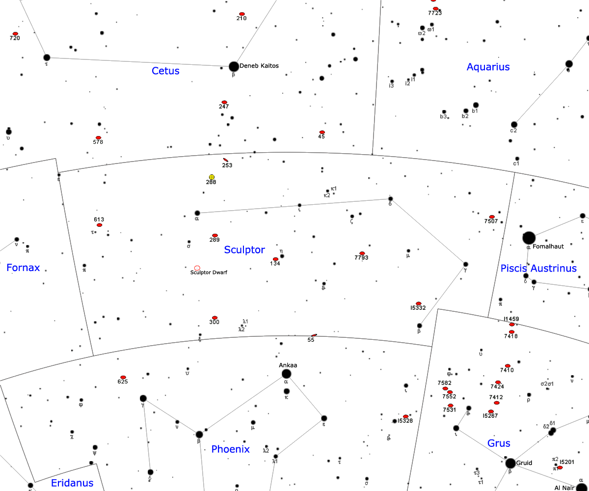 Map of Sculptor